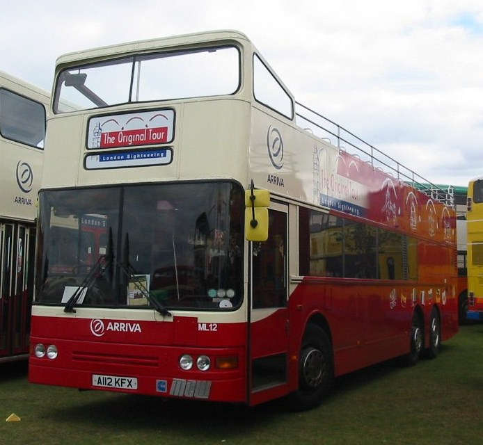 MCW Metroliner open top bus (cropped from original source image)